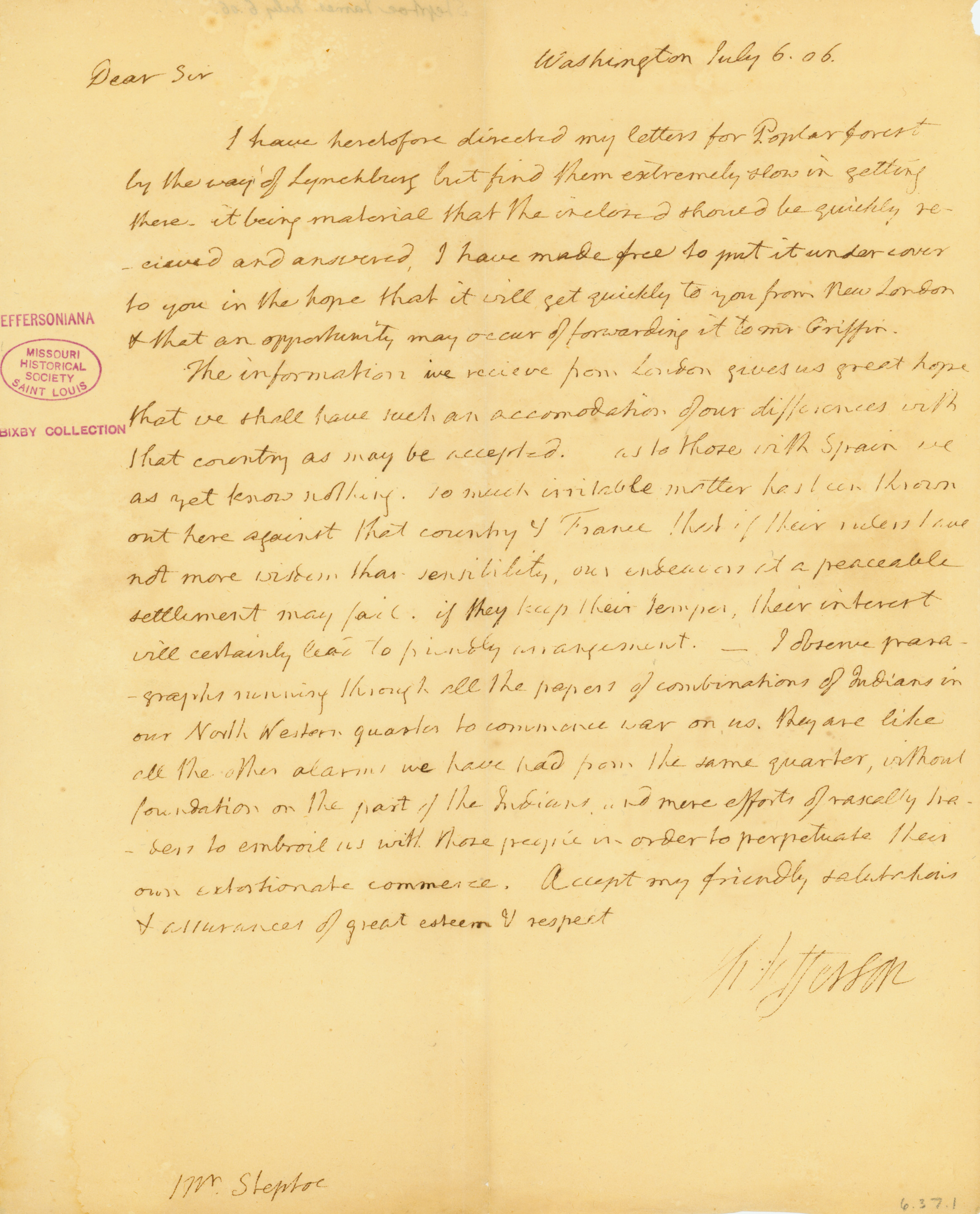 Regarding a settlement of differences between England, France, and Spain. Jefferson believes the Indian alarms in the northwestern quarter are without foundation.Title: Letter signed Thomas Jefferson, Washington, to James Steptoe, July 6, 1806